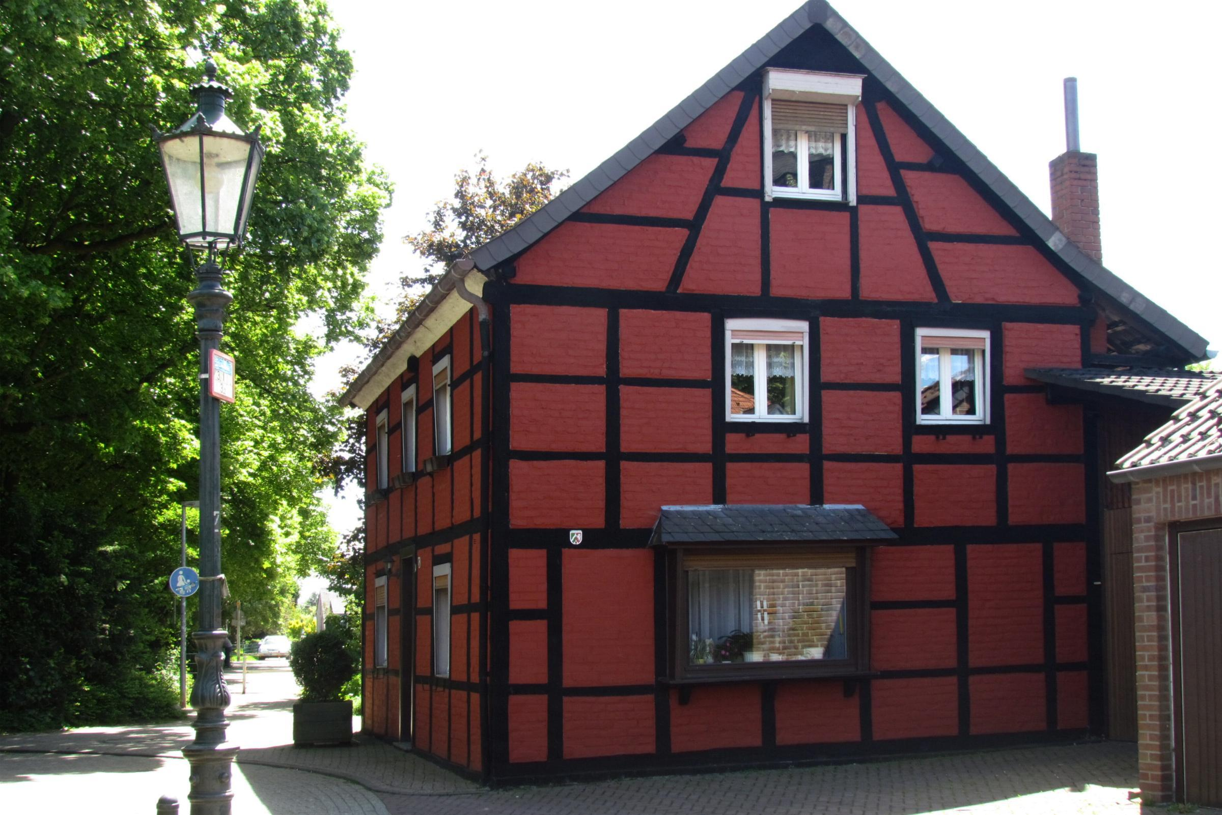 This is a photograph of an architectural monument.It is on the list of cultural monuments of Korschenbroich